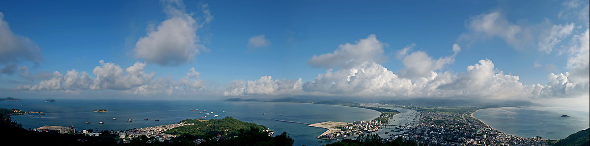 National Gangkou Sea Turtle Reserve (E114 °52ˊ50"~114°54ˊ33", N22°33ˊ15"~22°33ˊ20") lies in Huidong County, Guangdong Province, between Da Ya Wan bay and Hong Hai Wan bay, about 200km of Guangzhou and 100km of Hongkong. The whole area of the reserve is 18 km2, including the nest beach and the adjacent waters. The nest beach is about 1km long, on the east of a stubby peninsula. The average annual precipitation measure 1402 to 2085 mm, the temperature is about 8℃ to 32℃ whole year. It is the main nest site in Mainland China.